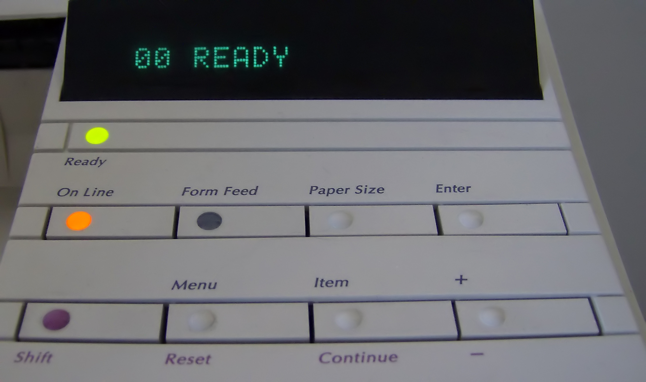 Self-taken photo on April 25, en:2007. The control panel on a Hewlett-Packard LaserJet 4.